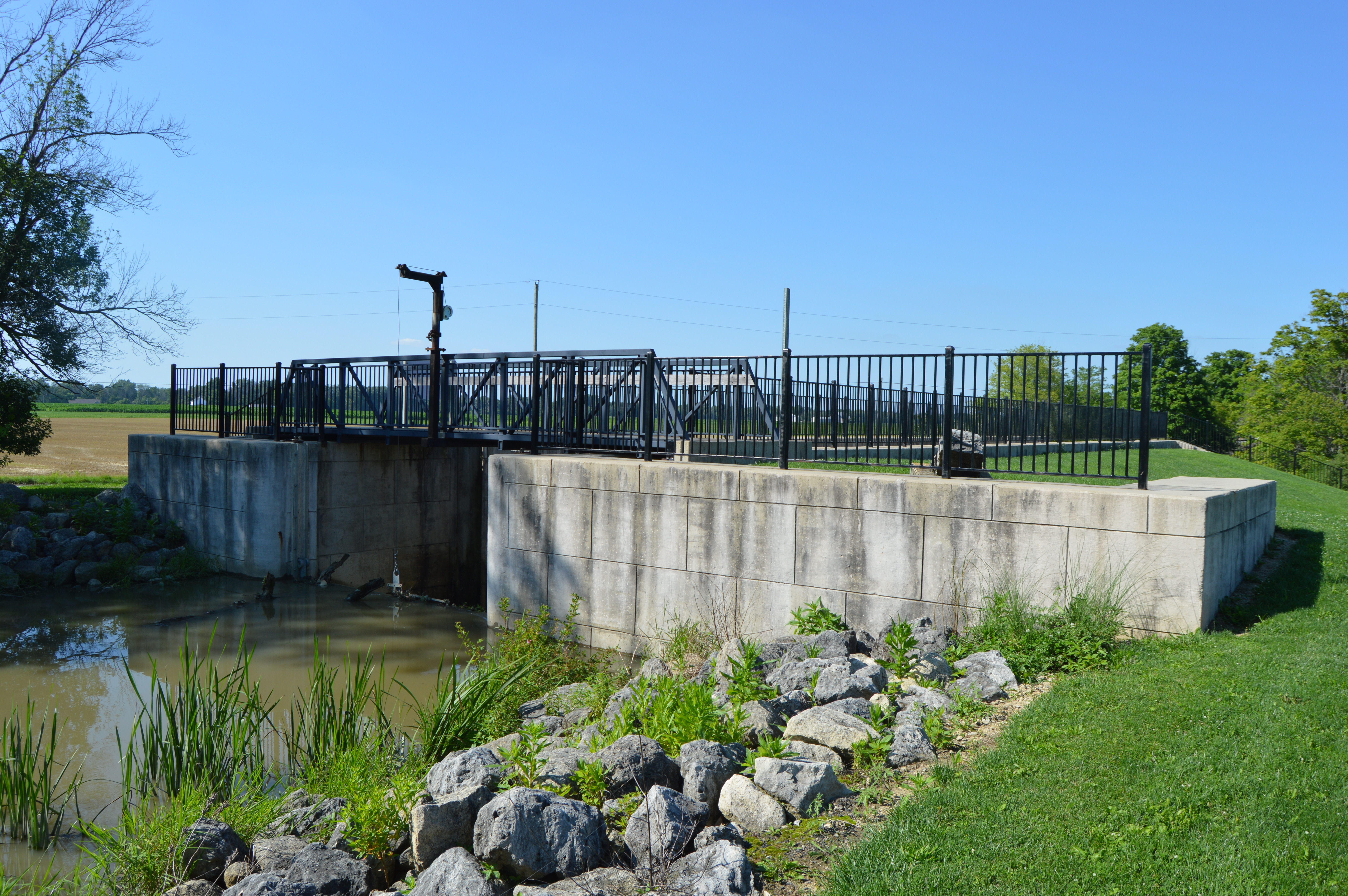 Upper (southern) end of Lock 14 on the Miami and Erie Canal, located off Lock Fourteen Road north of St. Marys in Noble Township, Auglaize County, Ohio, United States.